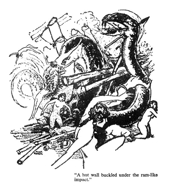 Illustration for Robert E. Howard's "Beyond the Black River" in Weird Tales (May 1935)